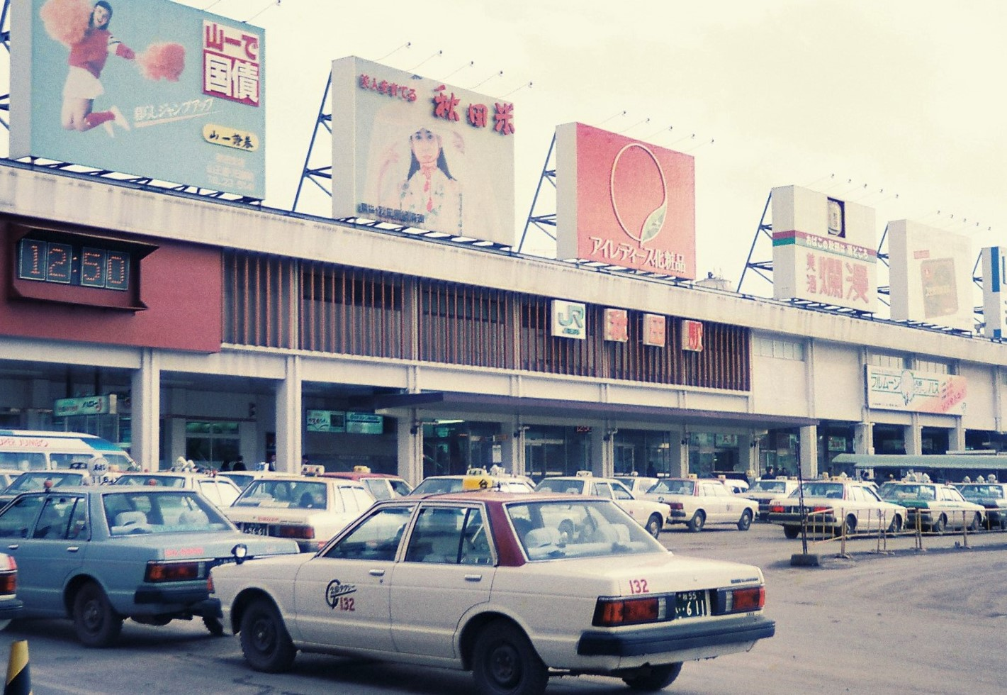 Akita Station